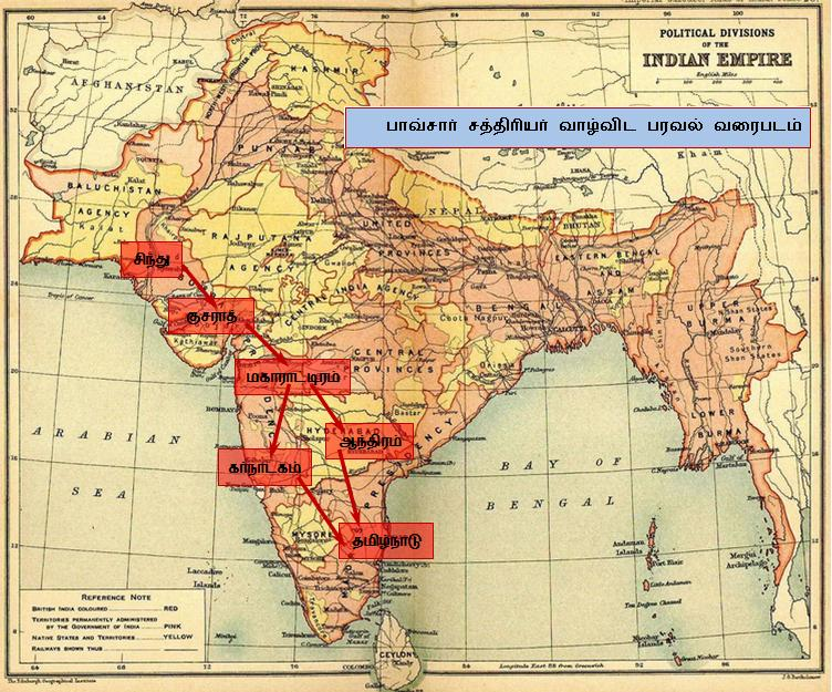 Distribution of Bhavsar Kshathriya in India